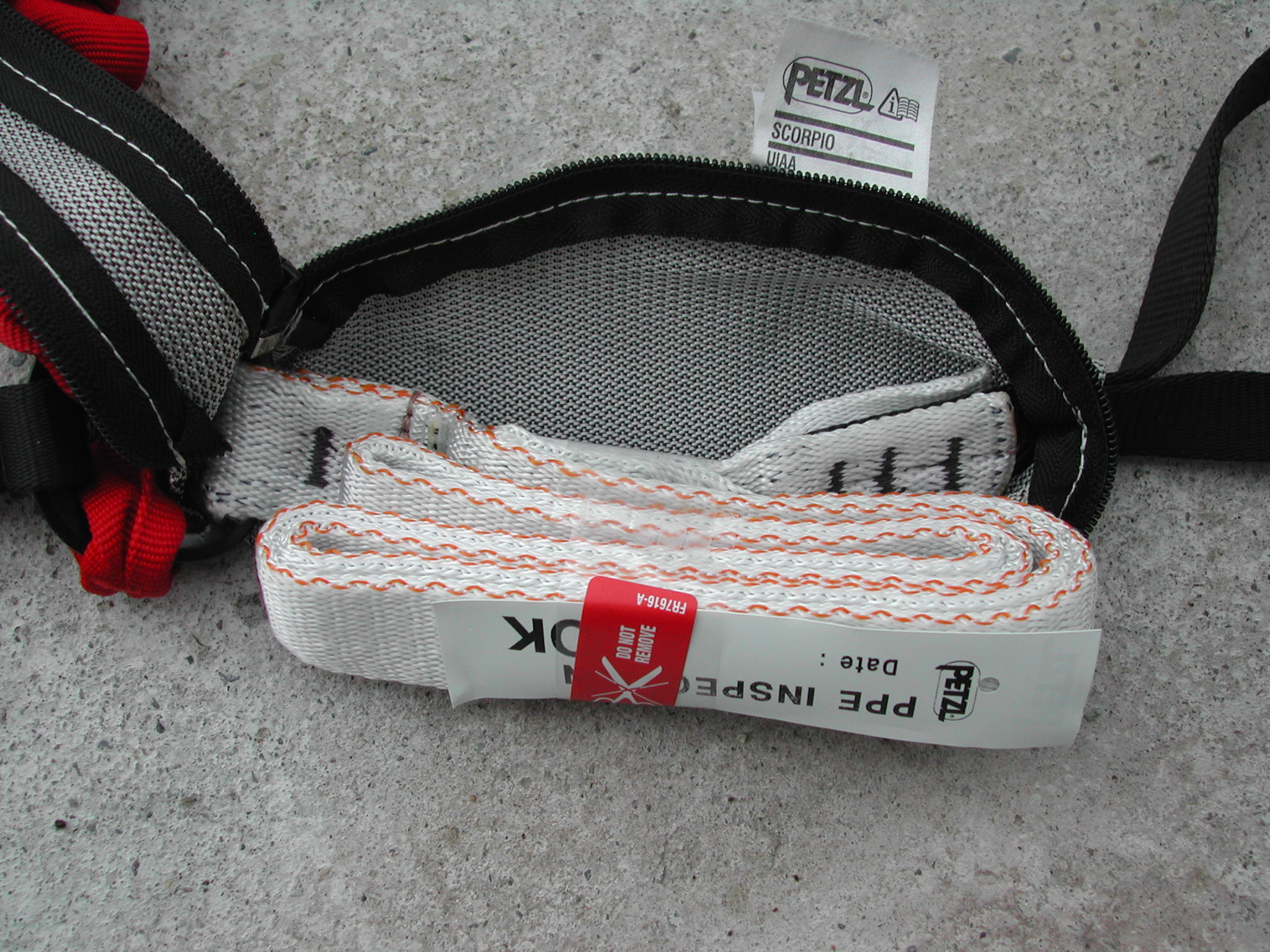 The shock absorber from a Petzl Scorpio Via Ferrata lanyard.